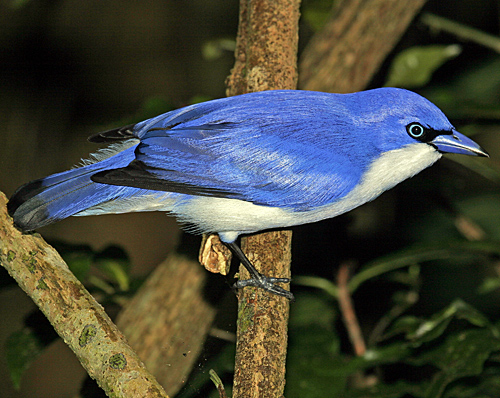 Blue Vanga (Cyanolanius madagascarinus) Andasibe-Mantadia National Park, Madgascar. January 2011